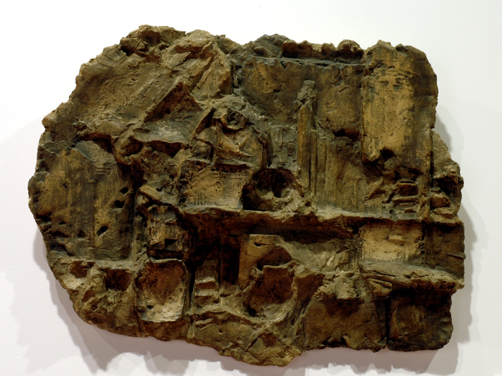 Sculpture by Jan Koblasa, Head, patinated plaster (1959)